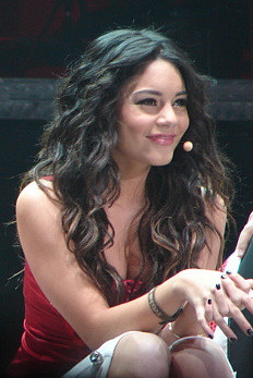 Ashley Tisdale and Vanessa Hudgens performing live at High School Musical Live.